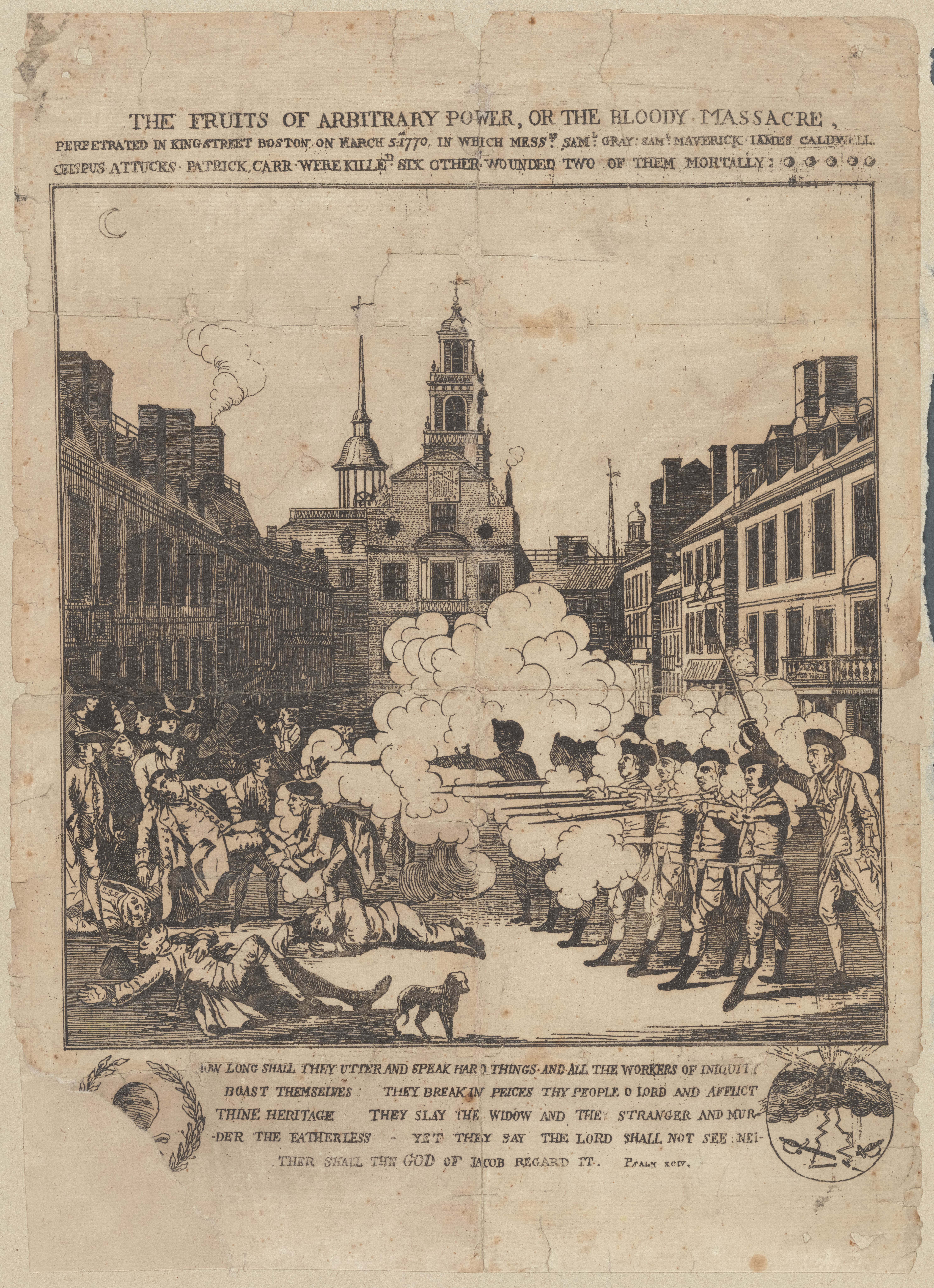 The Fruits of Arbitrary Power, or The Bloody Massacre Engraving, 1770 Print Collection, Gift of Mr. and Mrs. Edwin Merrill